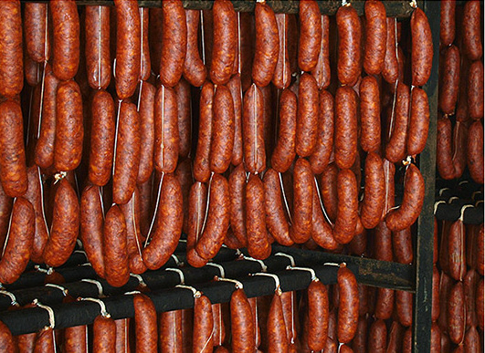 Curado de Chorizo Asturiano